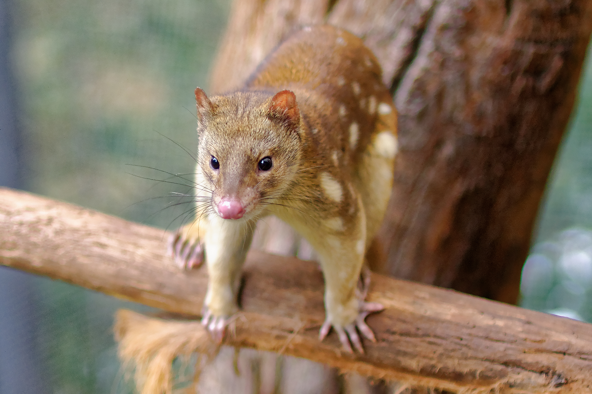 Tiger Quoll 2011